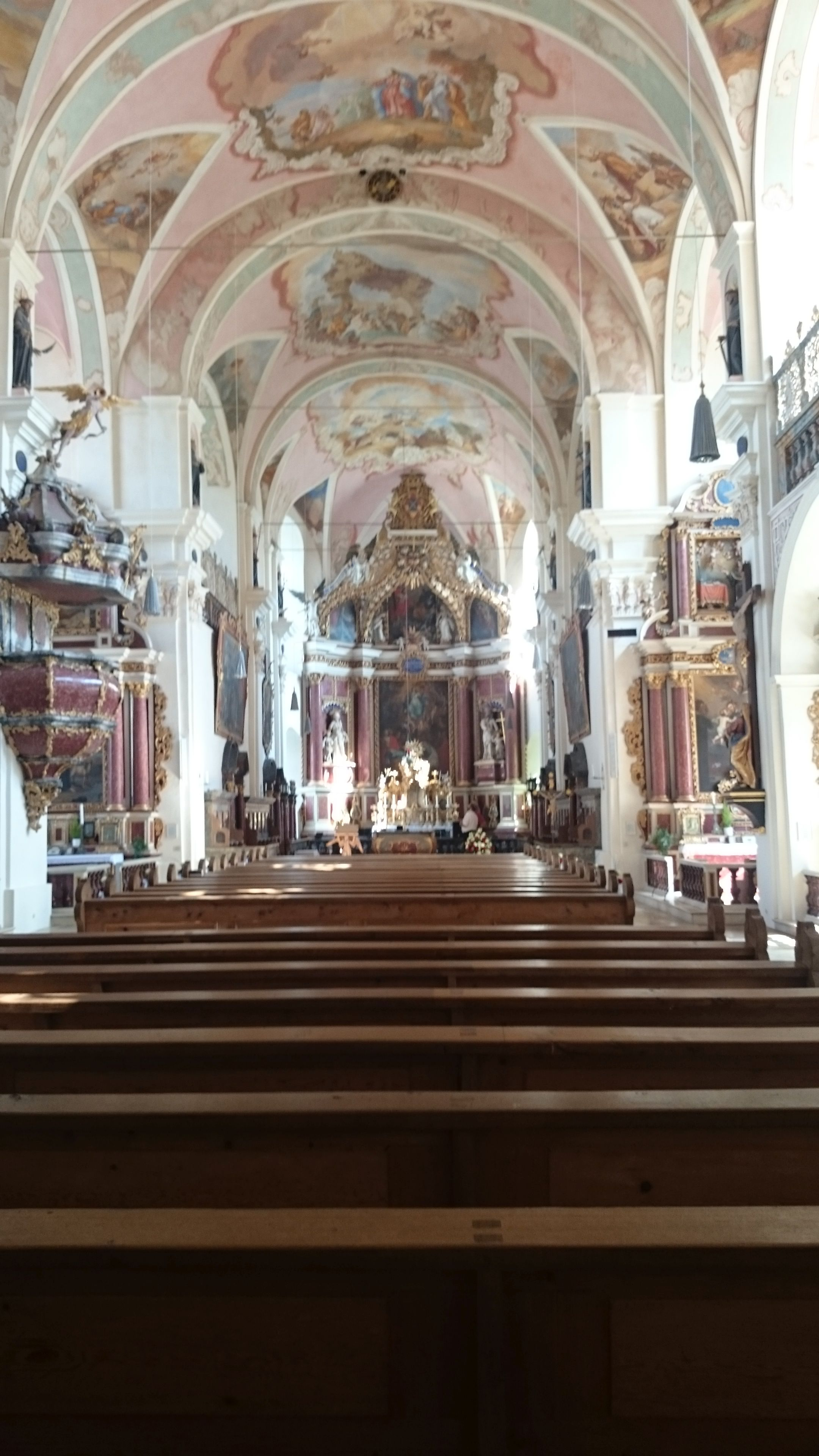 Church of Kloster Maihingen